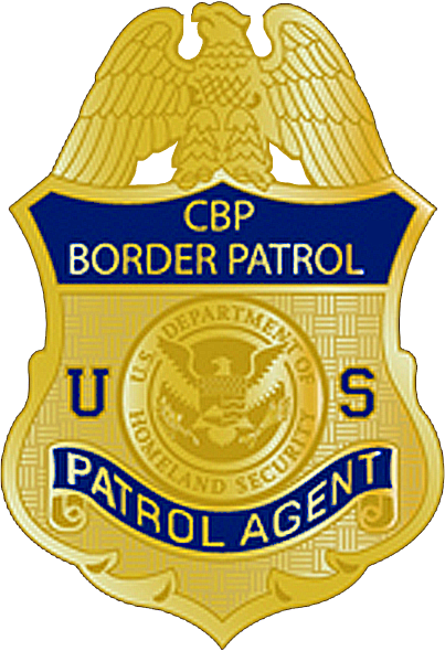 The badge of a United States Border Patrol (USBP) agent since 2003, after the agency became a part of the United States Department of Homeland Security.